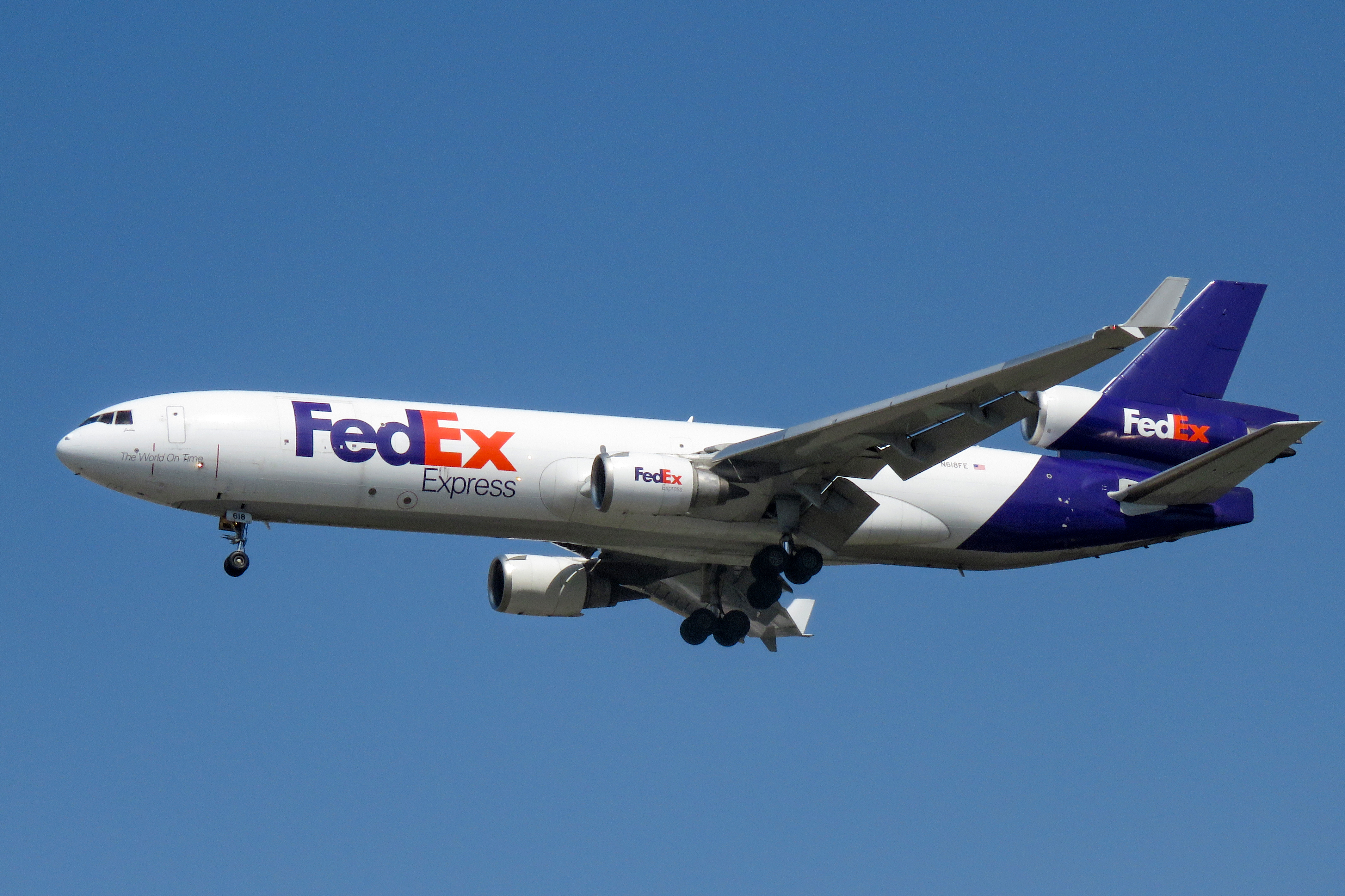 FedEx 5819 from Osaka. The last landing before direction change from 36L to 18R...